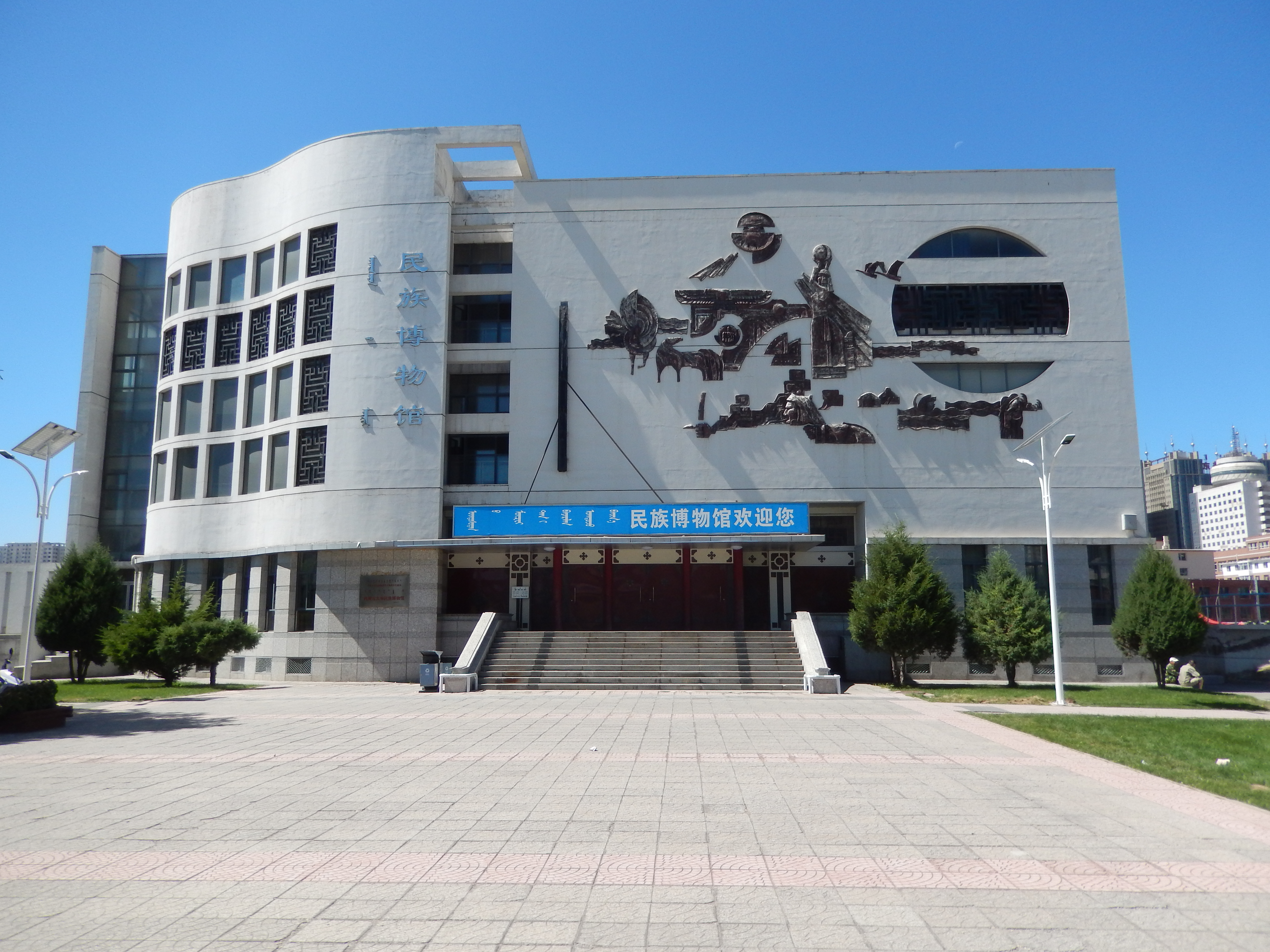 Nationalities Museum of the Inner Mongolia University (内蒙古大学民族博物馆), Hohhot, Inner Mongolia, China.